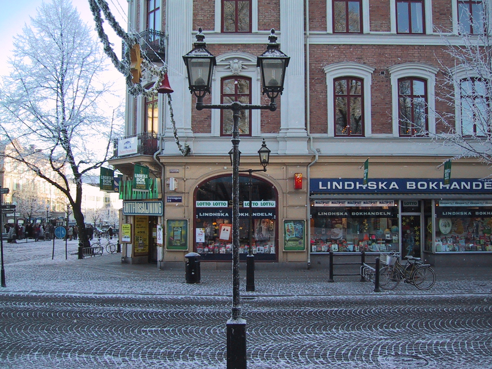 Lindhska bokhandeln, a more than century old bookstore in Örebro, Sweden.